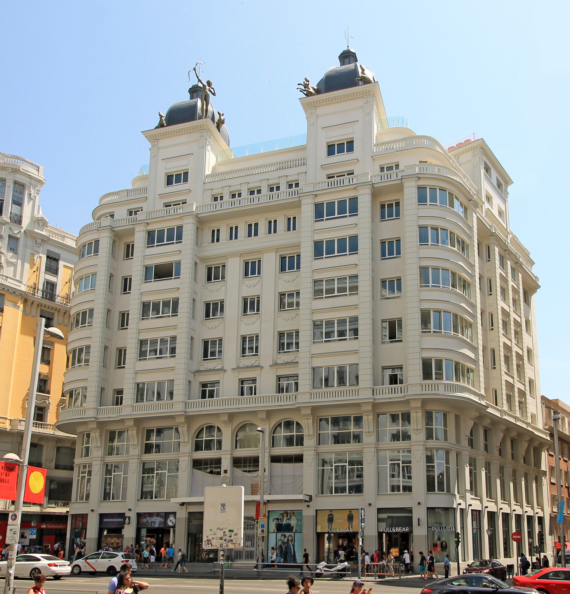 Building at 31 Gran Vía (avenue) in Madrid (Spain).